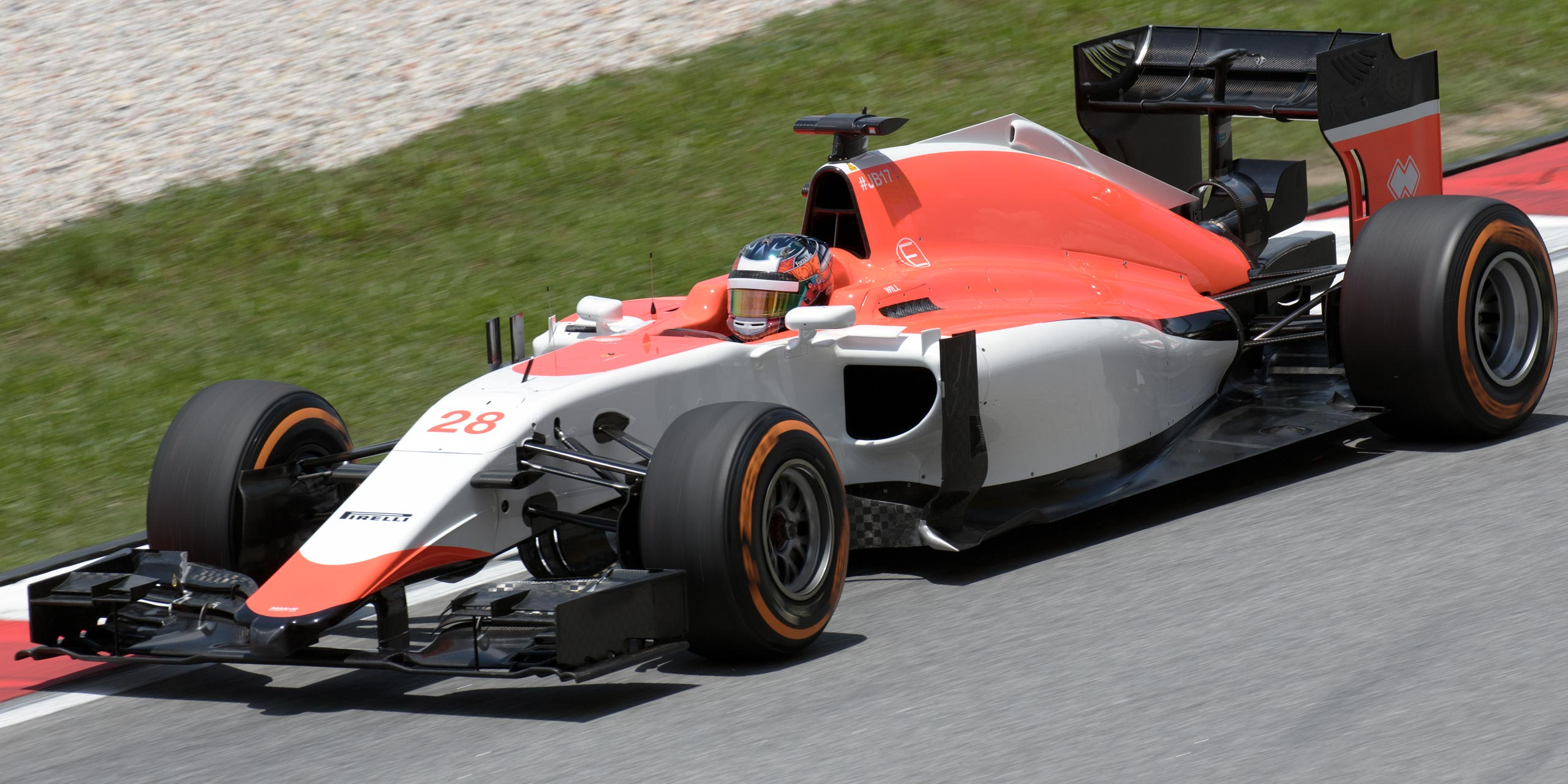 Formula One 2015 Rd.2 Malaysian GP: Will Stevens (Manor-Marussia)